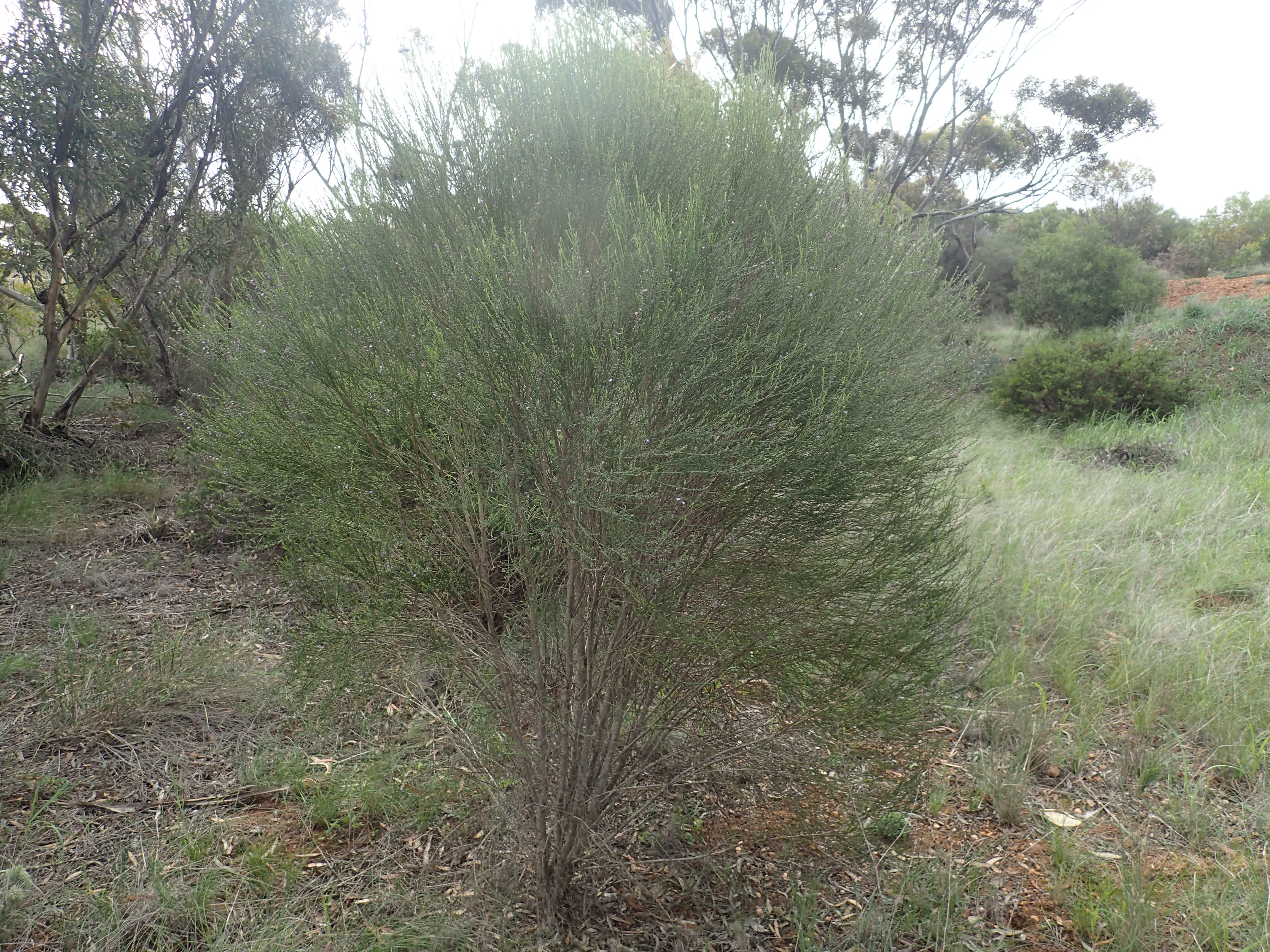 Eremophila dichroantha growing near the corner of South Coast Highway and Maydon Road near Ravensthorpe